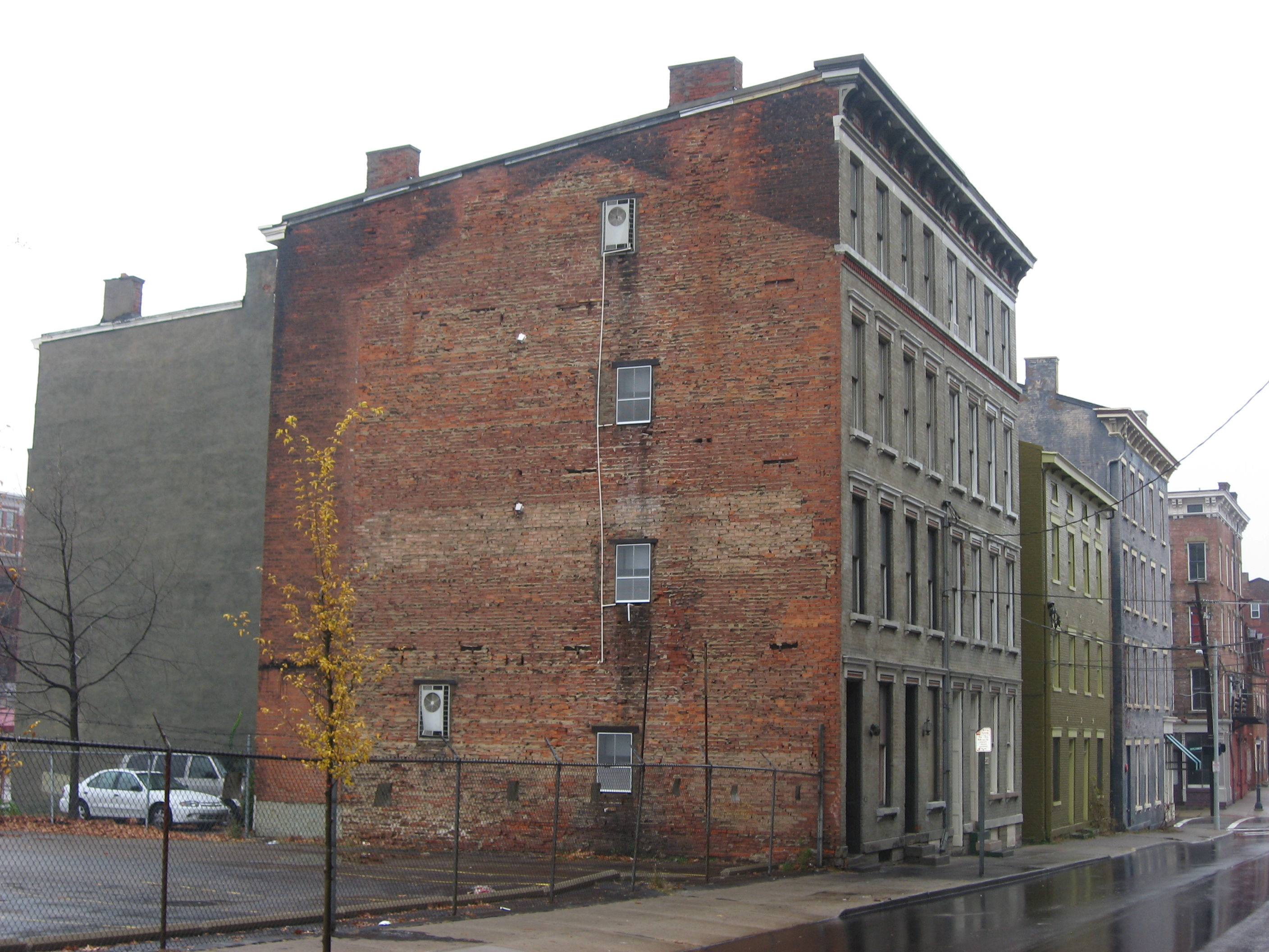 View from the east of buildings within the Sycamore-13th Street Grouping, a historic district centered around the intersection of Sycamore and Thirteenth Streets in the Over-the-Rhine neighborhood of Cincinnati, Ohio, United States. Built in 1853, the district is listed on the National Register of Historic Places, and it is part of the larger Register-listed Over-the-Rhine Historic District.